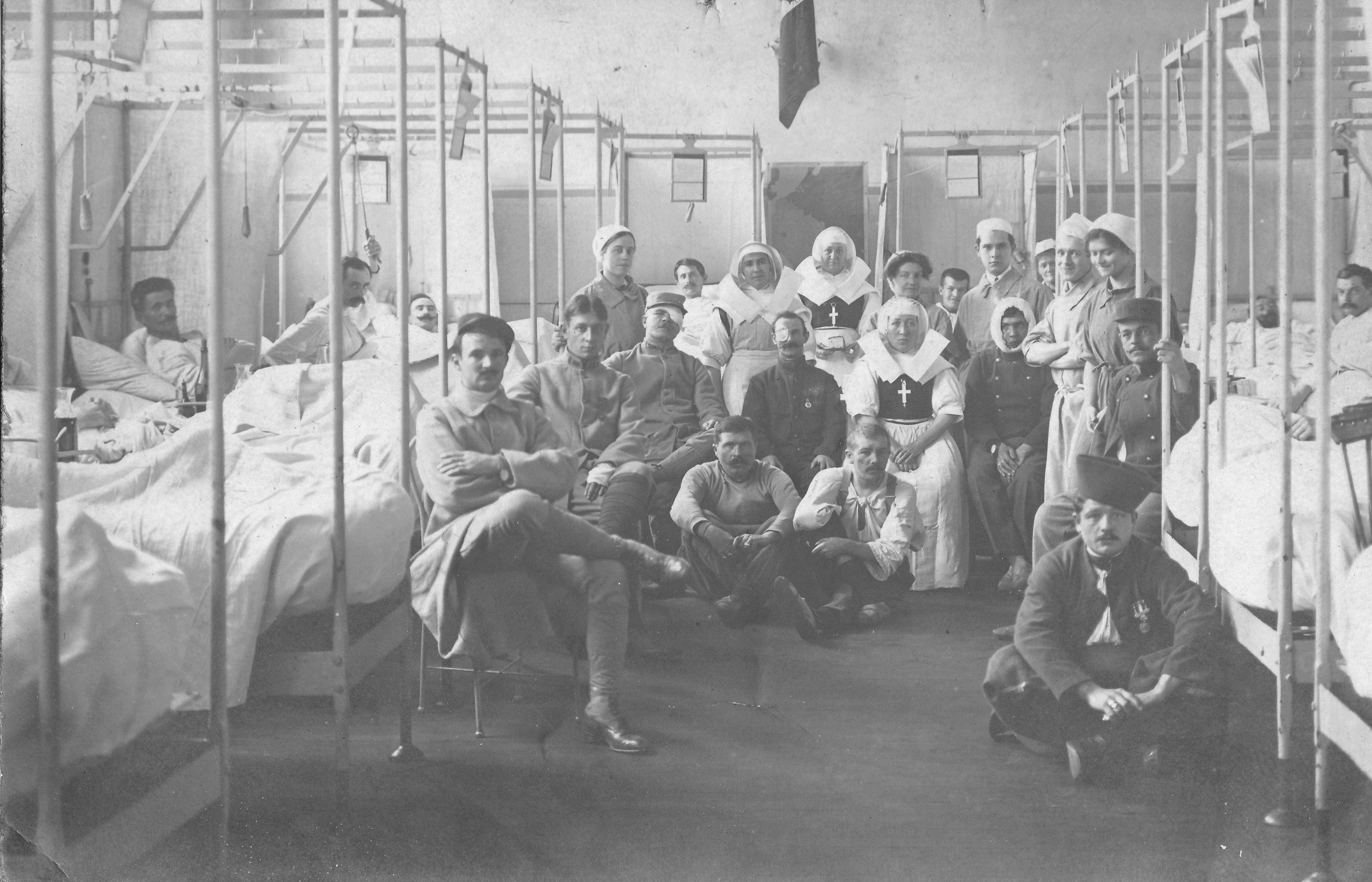 French military hospital during the First World War